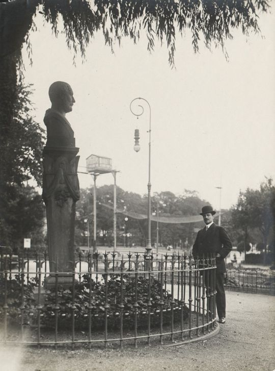 Knud Arne Petersen, architect and artistic director in for Tivoli Gardens from 1899 to 1940, photographed at Tivoli-founder Carstensen's bust in Tivoli Gardens